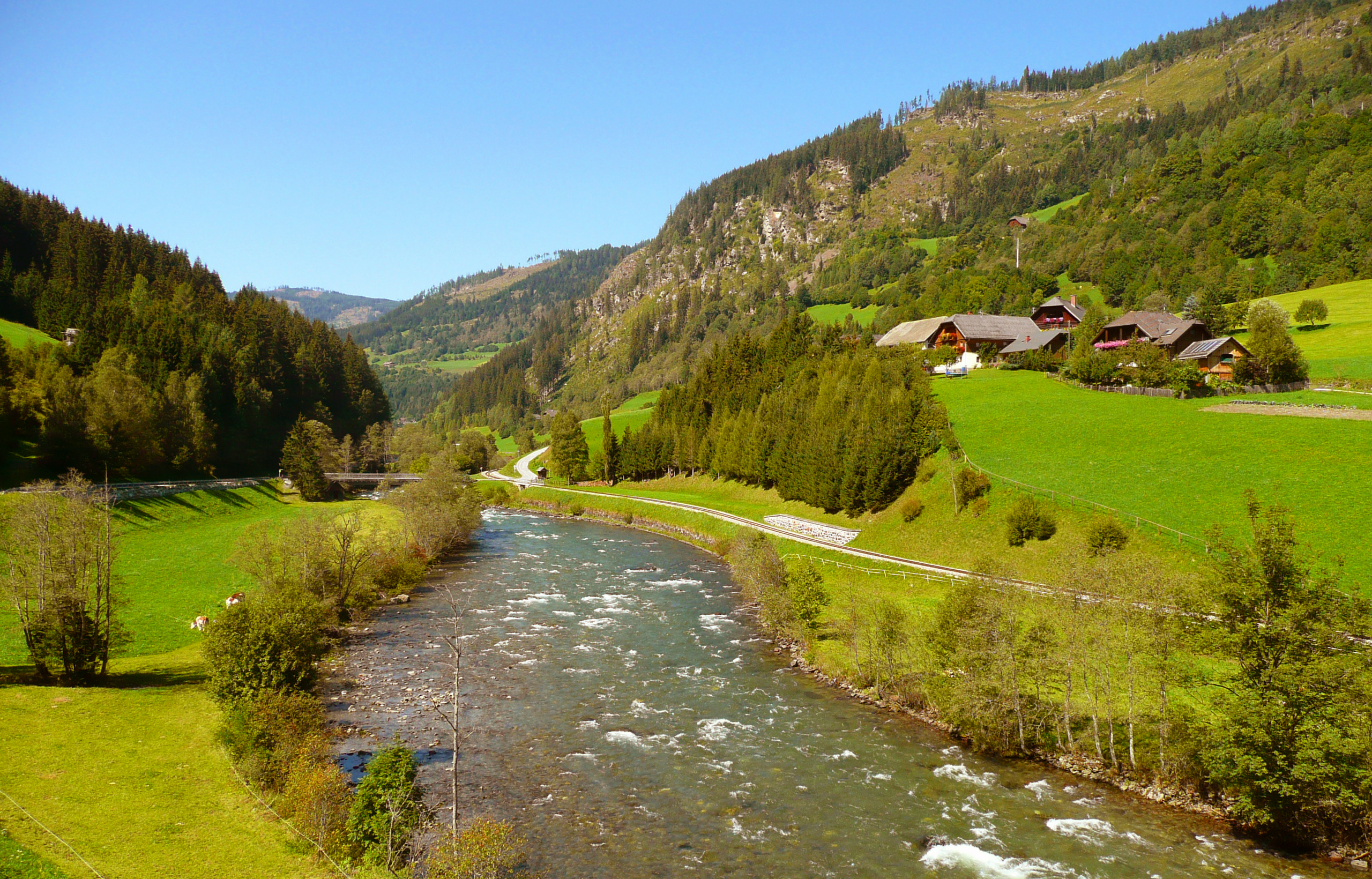 The Mur valley near Ramingstein, probably at Hinterring, near the border between Salzburg (State) and Styria.